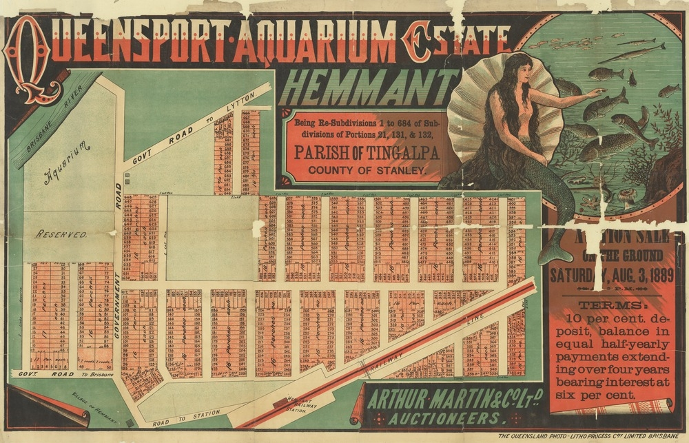 Creator: Arthur Martin & Co. Location: Hemmant, Brisbane, Queensland. Description: Land for sale is resubdivisions 1 to 684 of subdivisions of portions 21, 131, & 132, Parish of Tingalpa, County of Stanley. Published by The Queensland Photo-Litho Process Coy Limited (Brisbane). 58 x 96 cm. Plan of allotments to be sold Saturday, 3rd August, 1889. Read more about SLQ's map collections: View this image at the State Library of Queensland: Information about State Library of Queensland’s collection: You are free to use this image without permission. Please attribute State Library of Queensland.